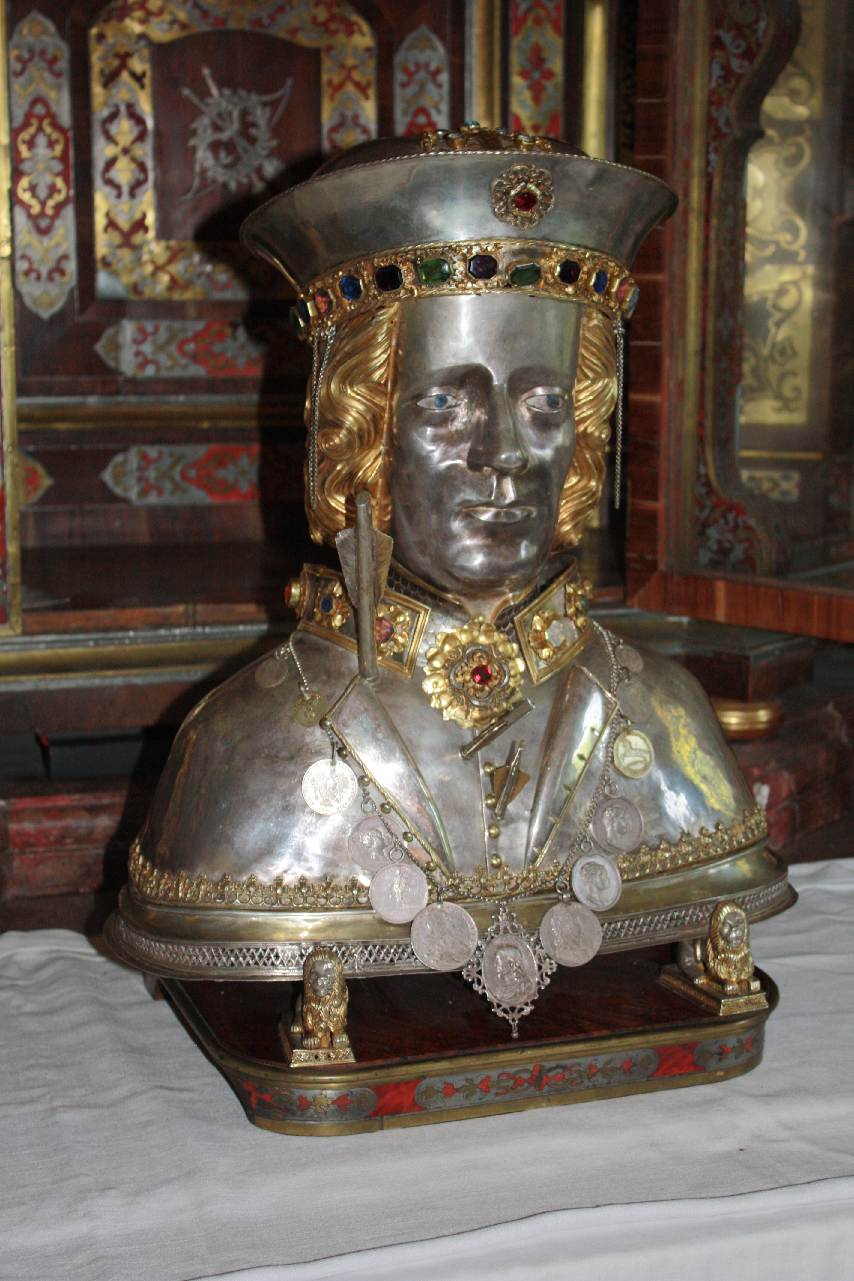 Relic of Saint Sebastian with his brain pan in church St. Sebastian in Ebersberg, Bavaria, Germany